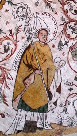 Painting in Överselö Church in Sweden, depicting the saint Eskil, with his attributes, the stones with which he was killed. Detail (left side) of Image:Overselo L1valv4a.jpg.